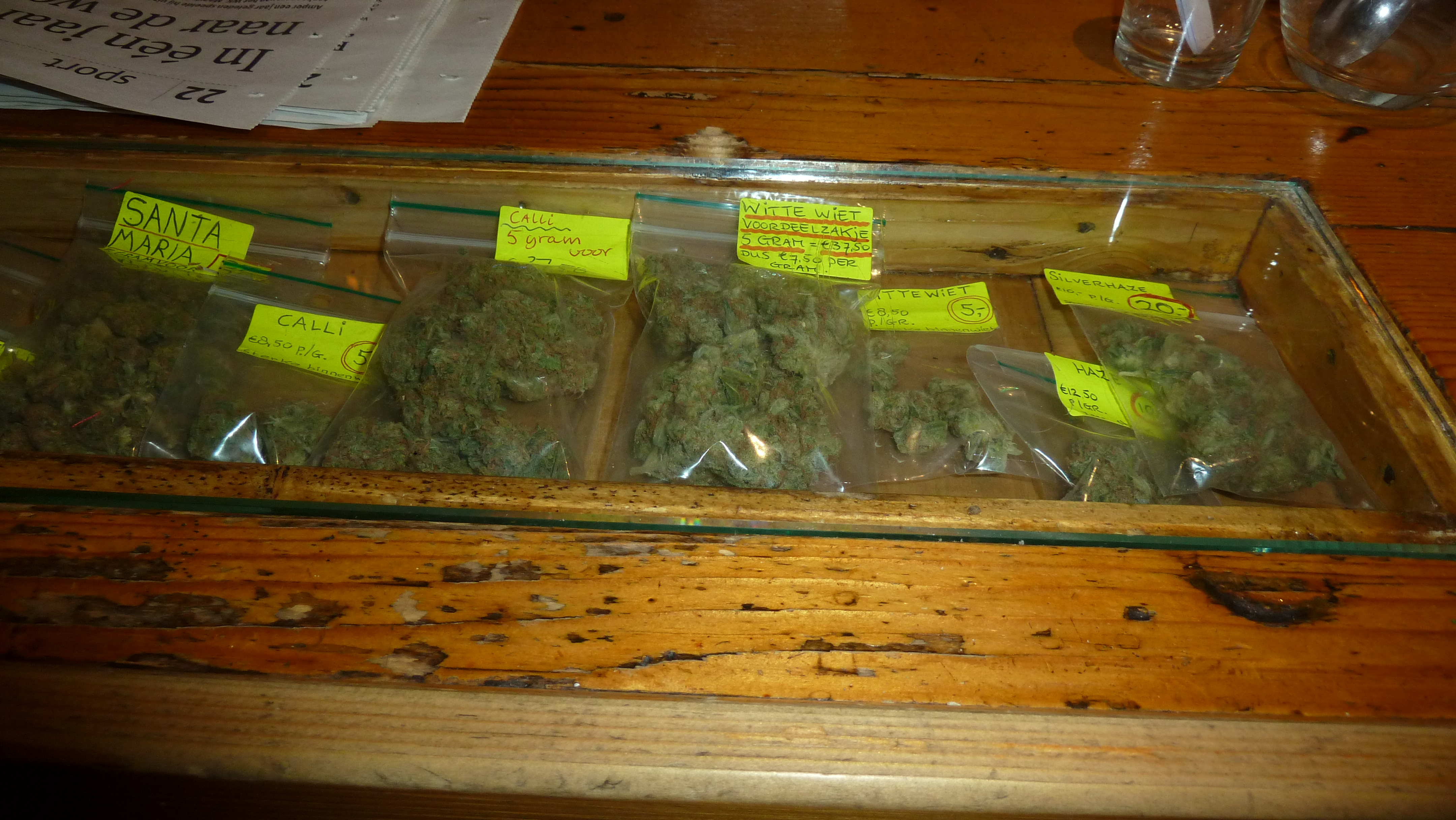 The bar of a Dutch coffeeshop: Display showing marihuana